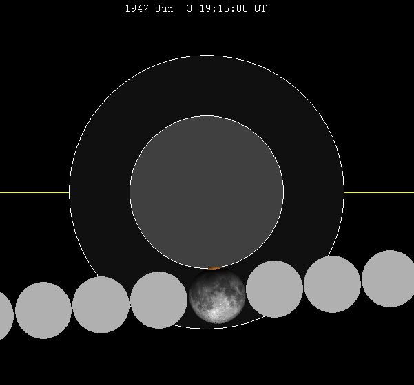 Lunar eclipse chart of moon's path through the earth's shadow. thumb